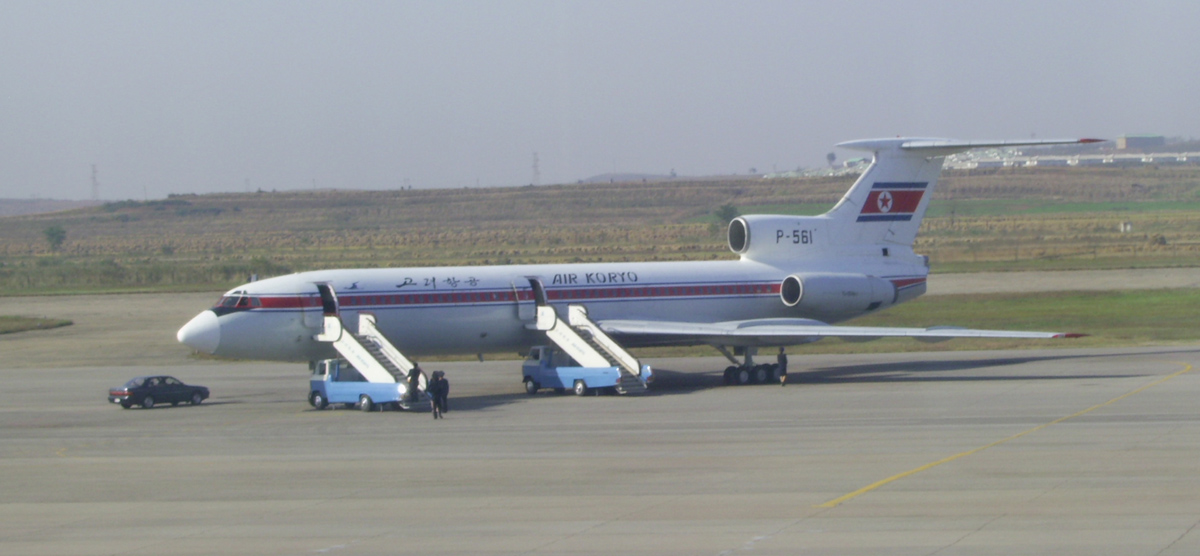 An Air Koryo Tu-154B-2 flight to Beijing at Sunan International Airport in Pyongyang.